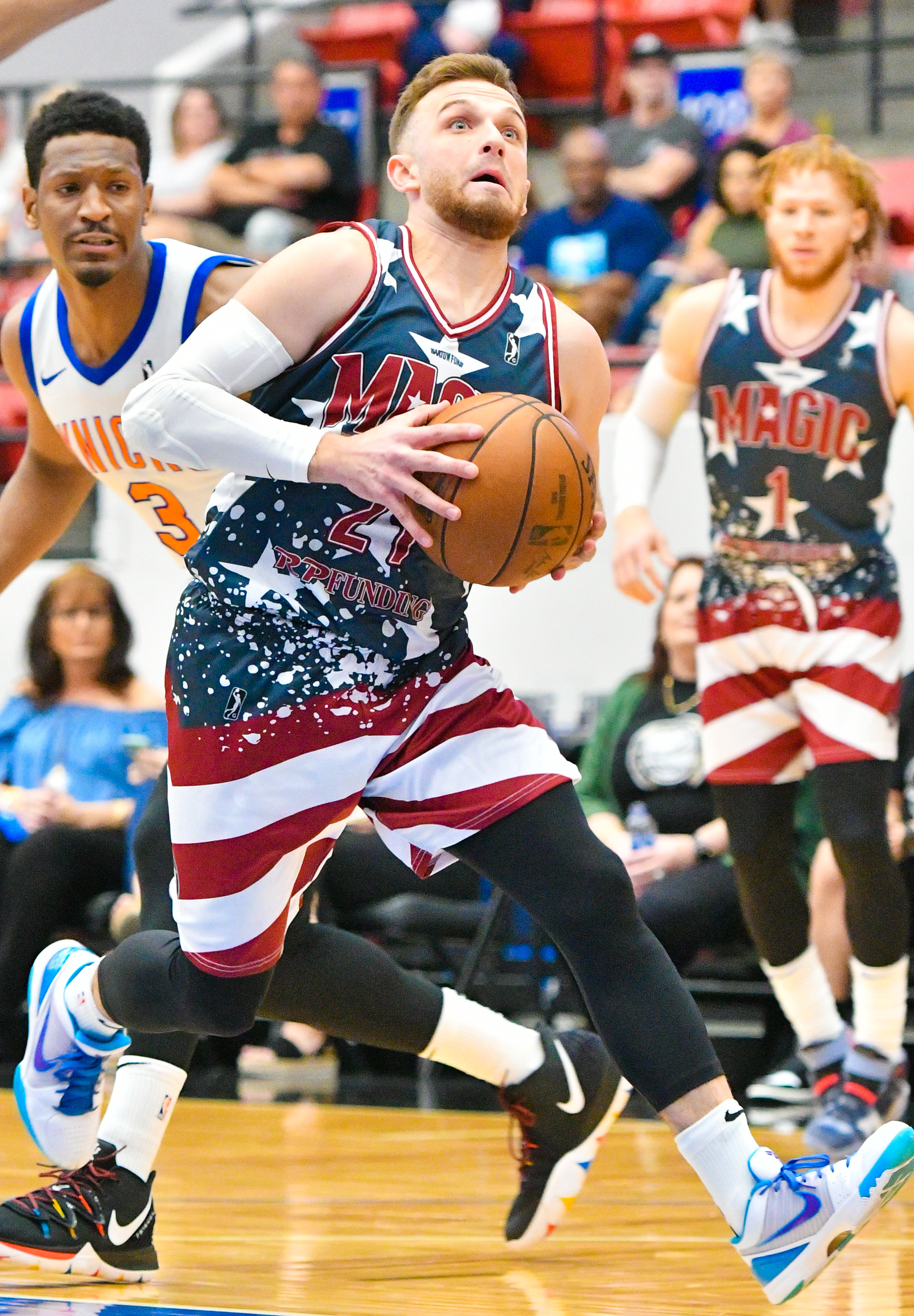 Andrew Rowsey. Lakeland Magic vs Westchester Knicks. RP Funding Center. Lakeland, Fla. Jan. 11, 2020. (Photo by Tom Hagerty.)